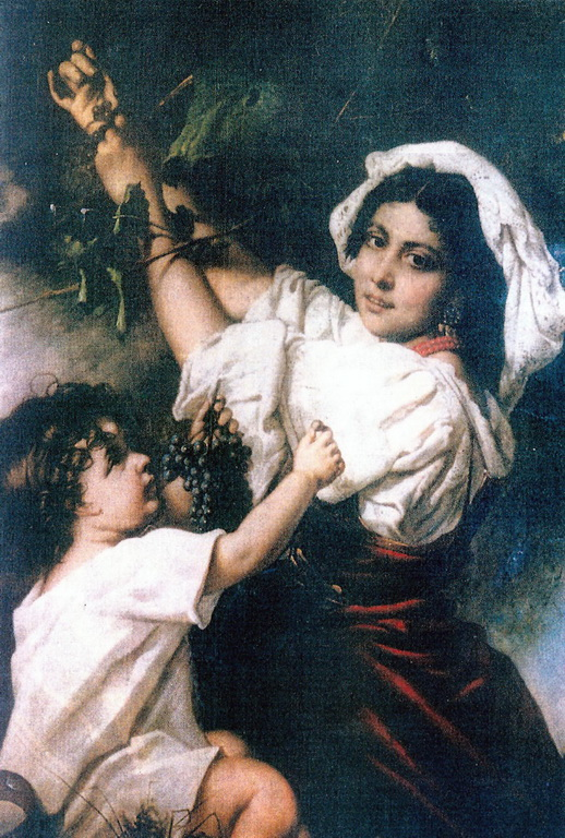 Cutting grapes